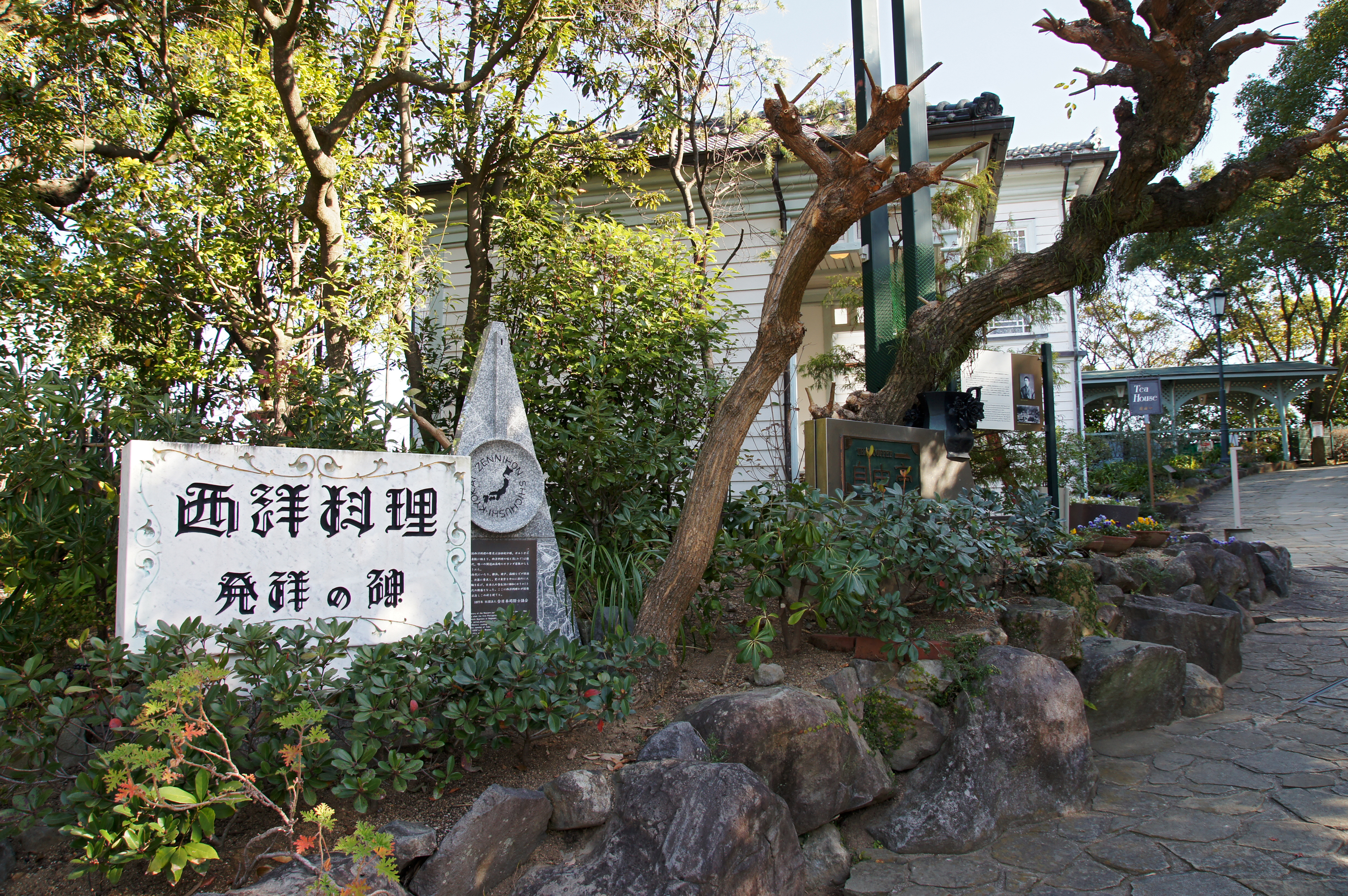 Former "Jiyu-tei" Restaurant in Glover Garden, Nagasaki, Nagasaki prefecture, Japan